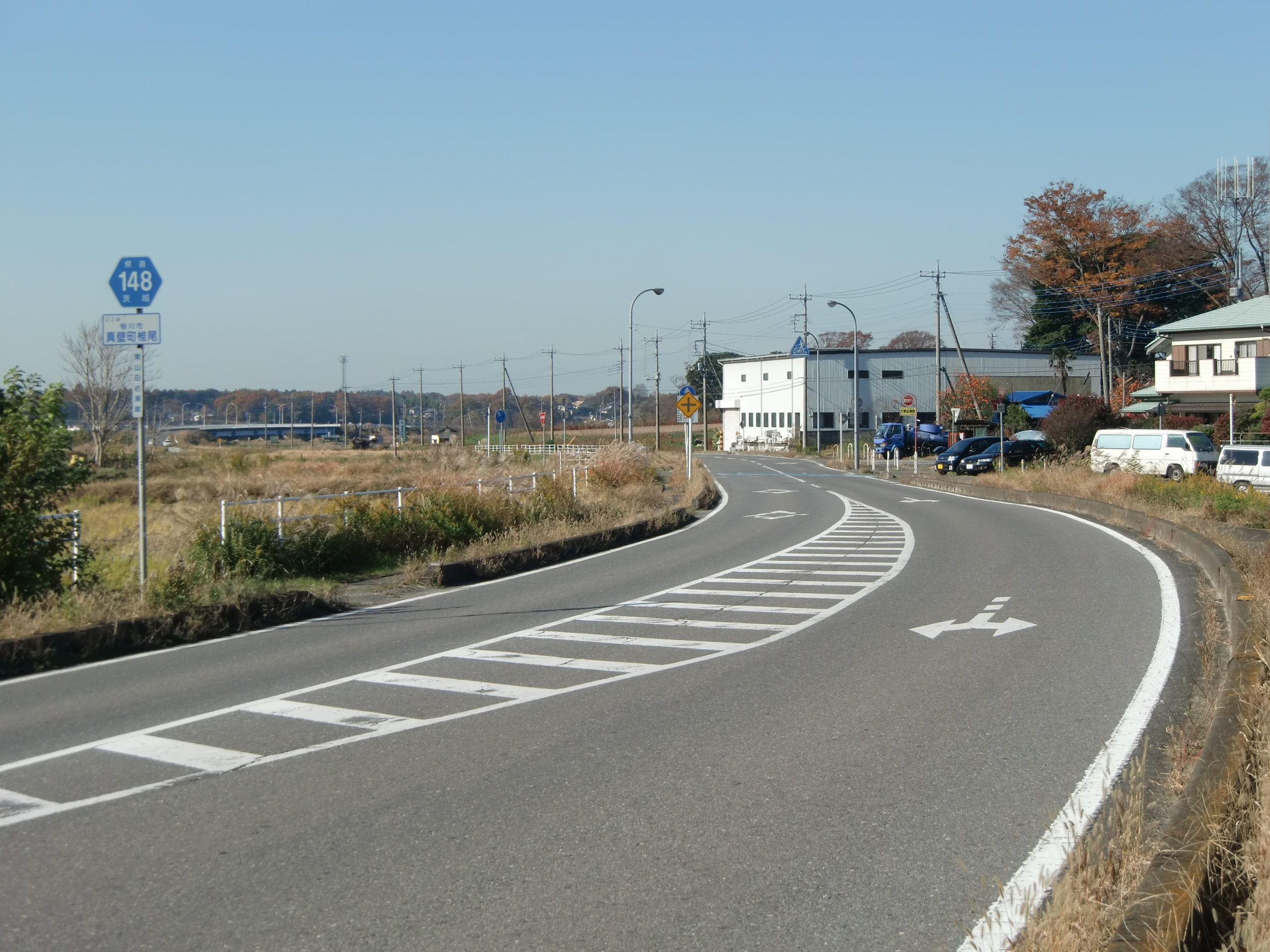 Ibaraki prefectural road 148 in Makabecho-Shiio, Sakuragawa city, Ibaraki pref., JAPAN.